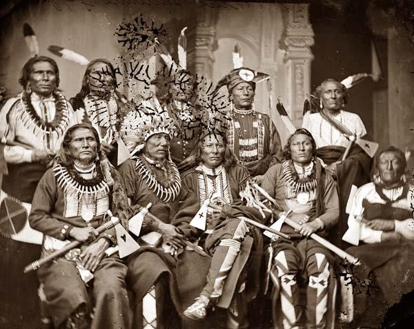 Native American chiefs in 1865. Description given at the source: "(...) photo of Indians group. It was made in 1865." (text from same source)